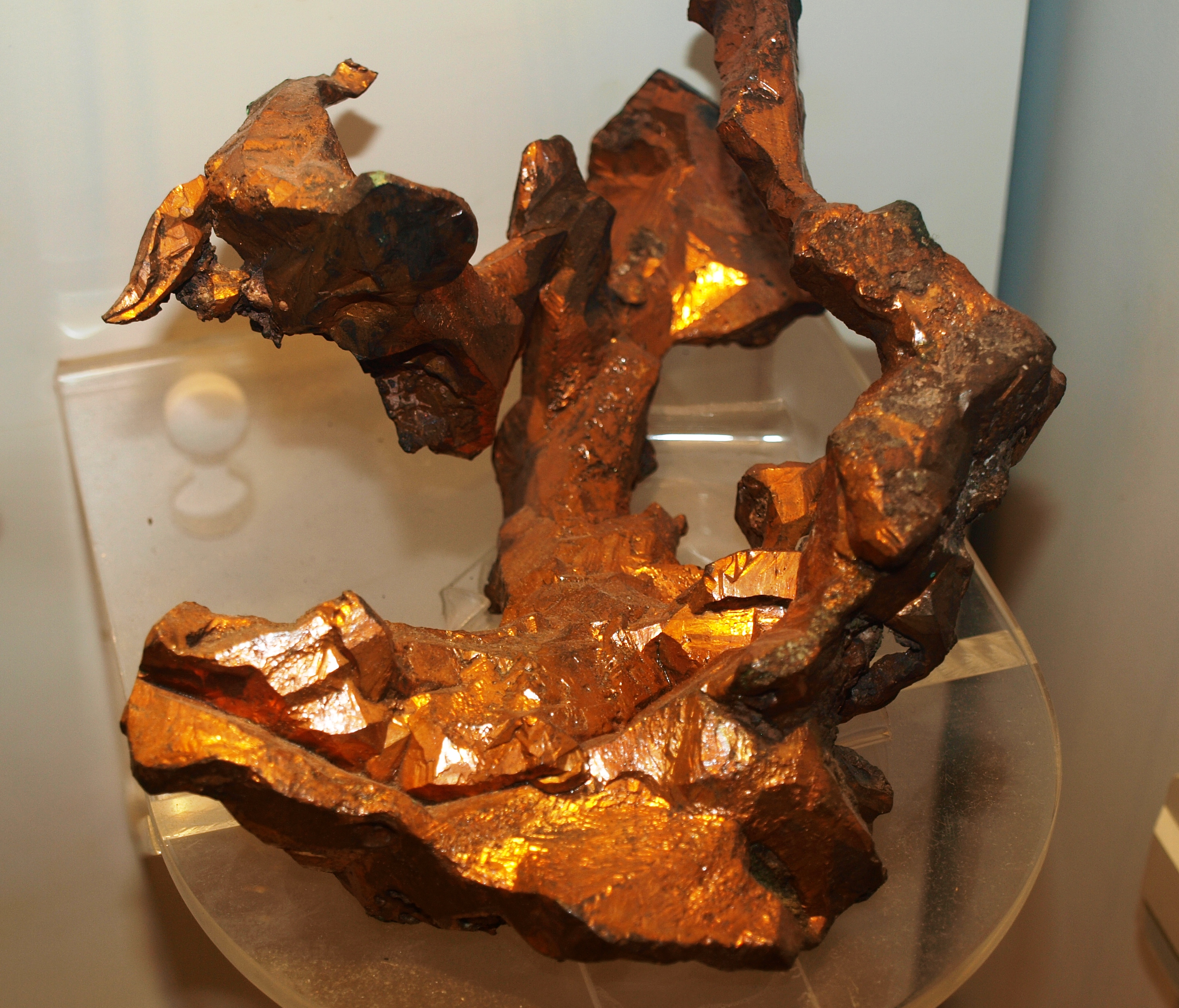 Native copper, Collections of the Australian Museum